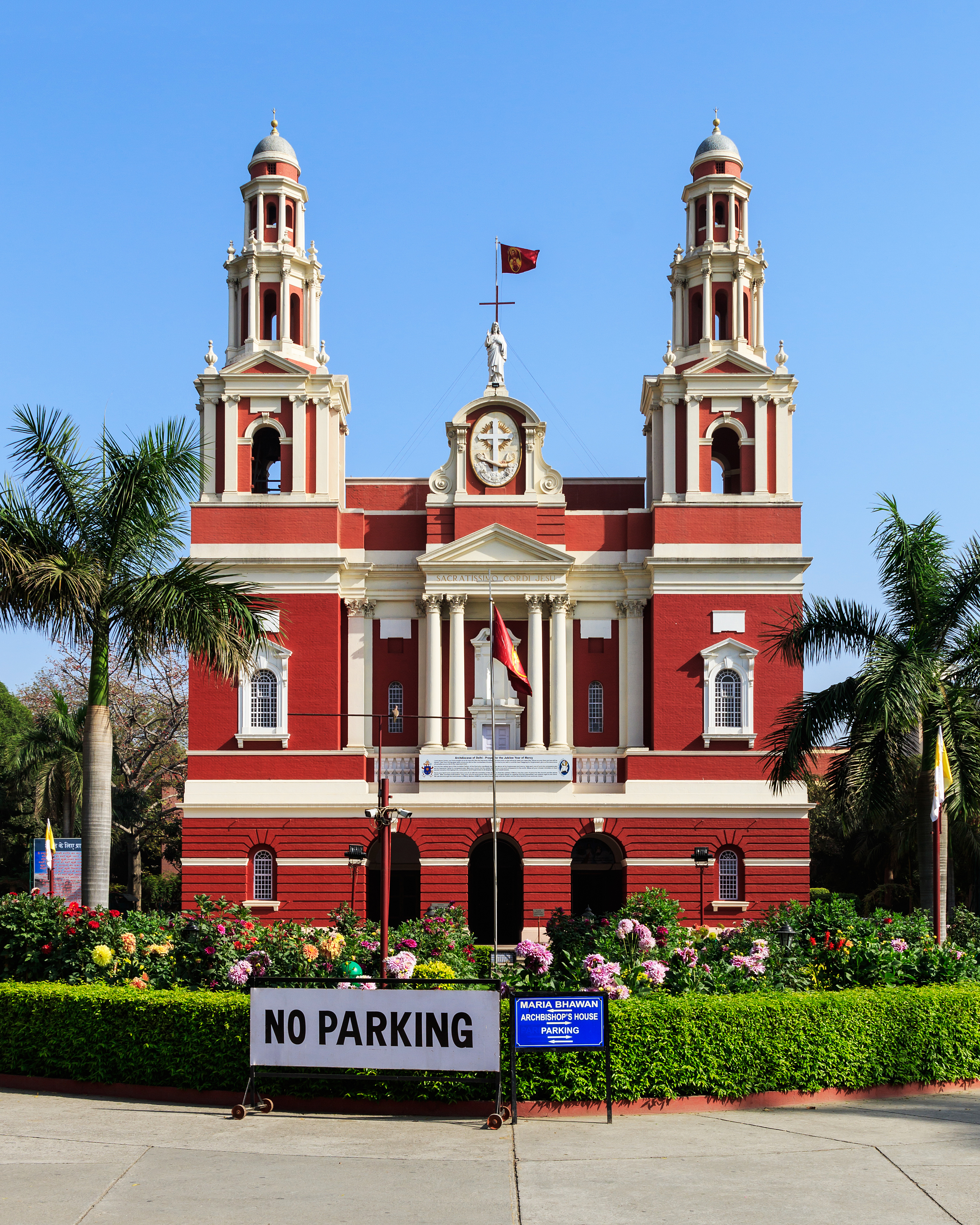 Sacred Heart Cathedral in New Delhi, India